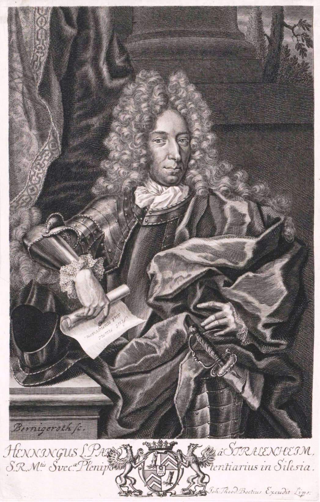 Portrait of Henning von Stralenheim